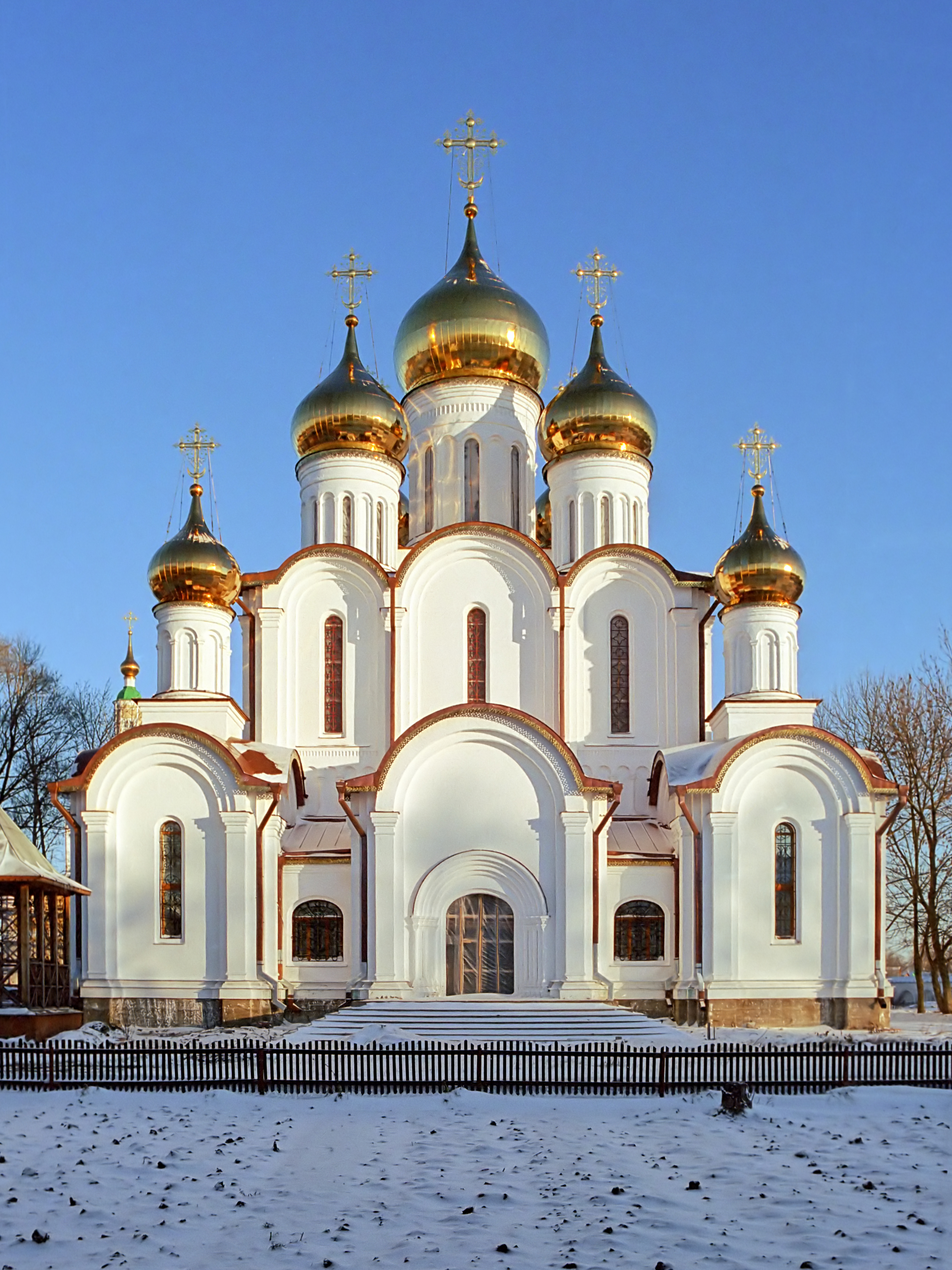 Nikolsky cathedral of Nikolsky monastery in Pereslavl.